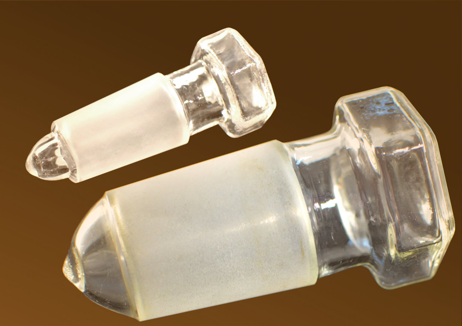 Ground Glass Stoppers, glas, 29 mm and 14,5 mm